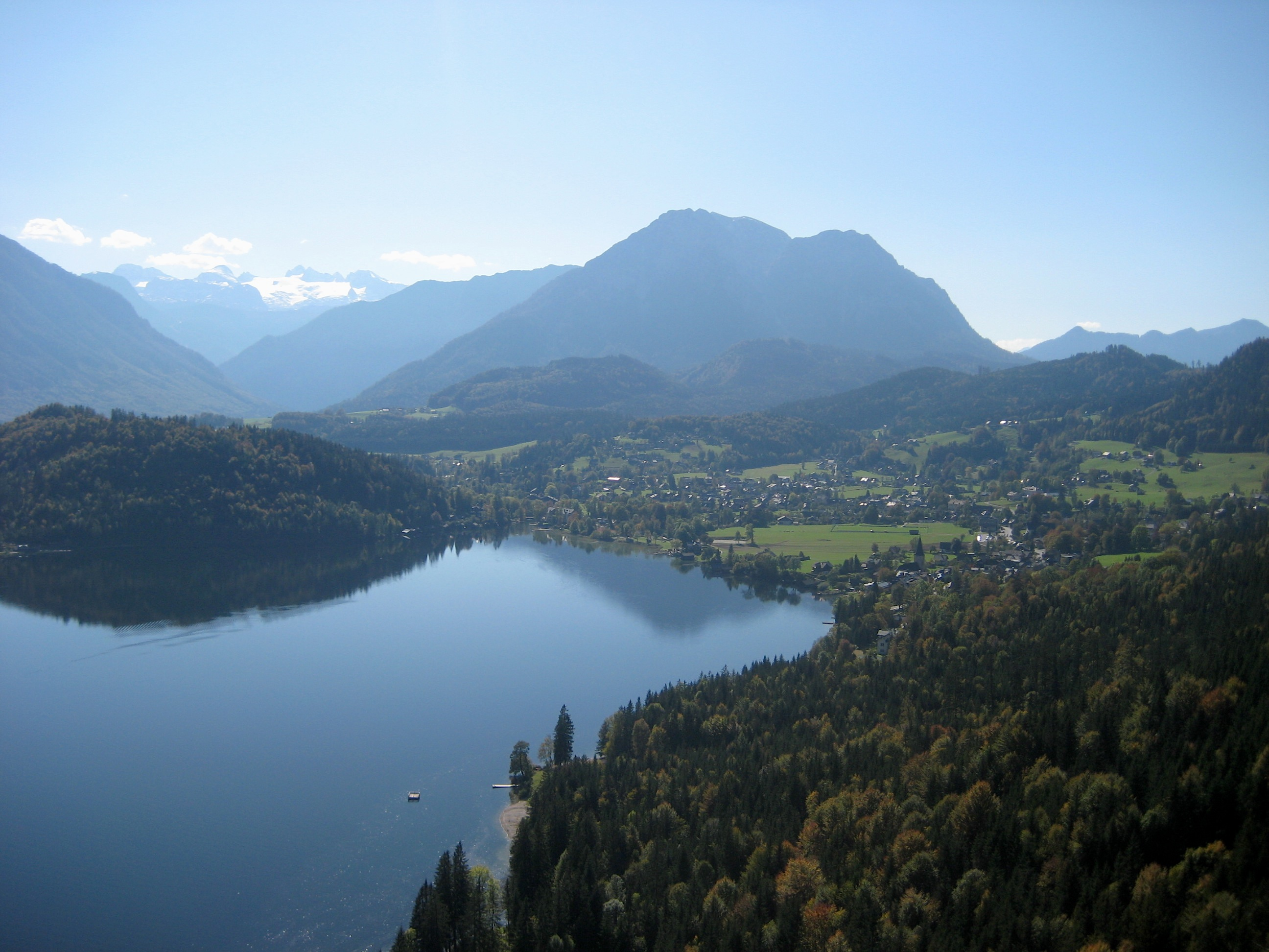 Lake Altaussee, Altaussee village, Dachstein glacier and Sarstein mountain